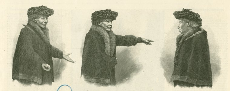 French anarchist Louise Michel depicted in the press